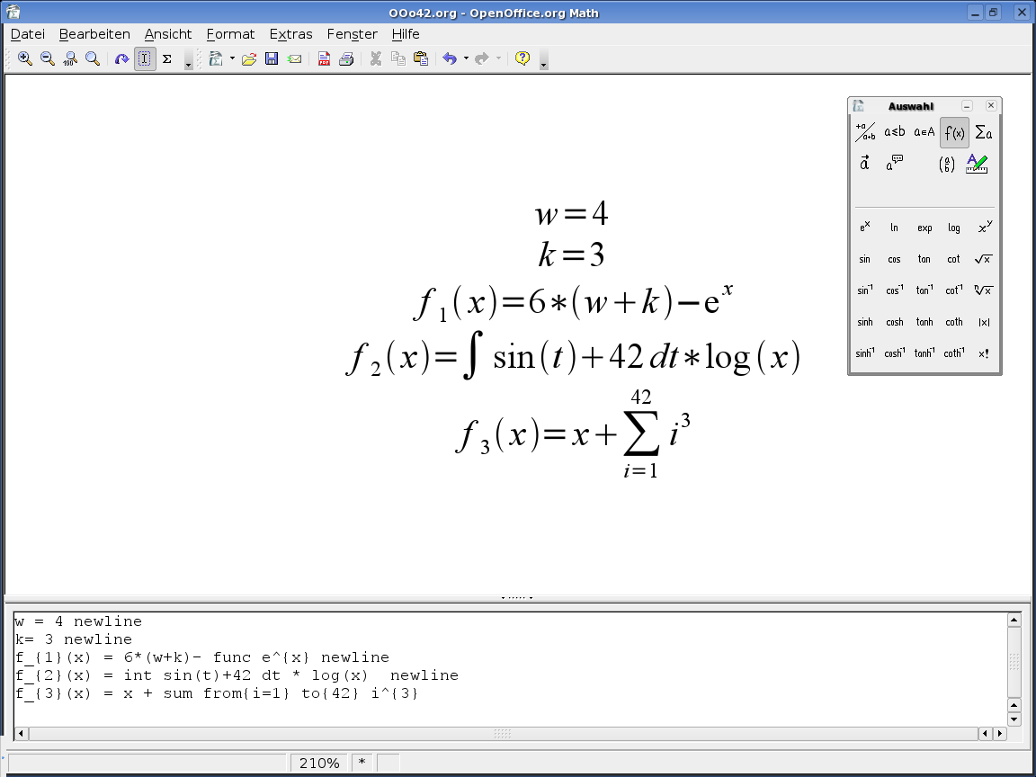 Screenshot 2.0 Math (Linux)